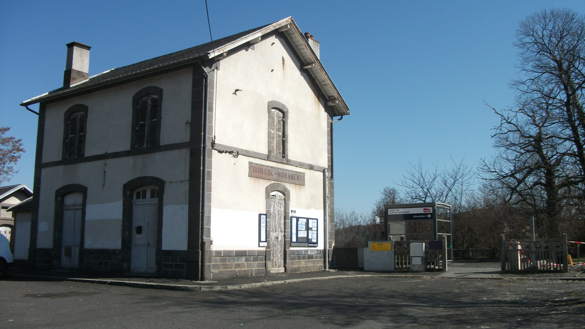 Durtol-Nohanent railway station (Puy-de-Dôme, Auvergne, France)